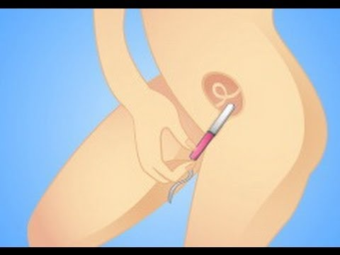 Inserting tampon with applicator.